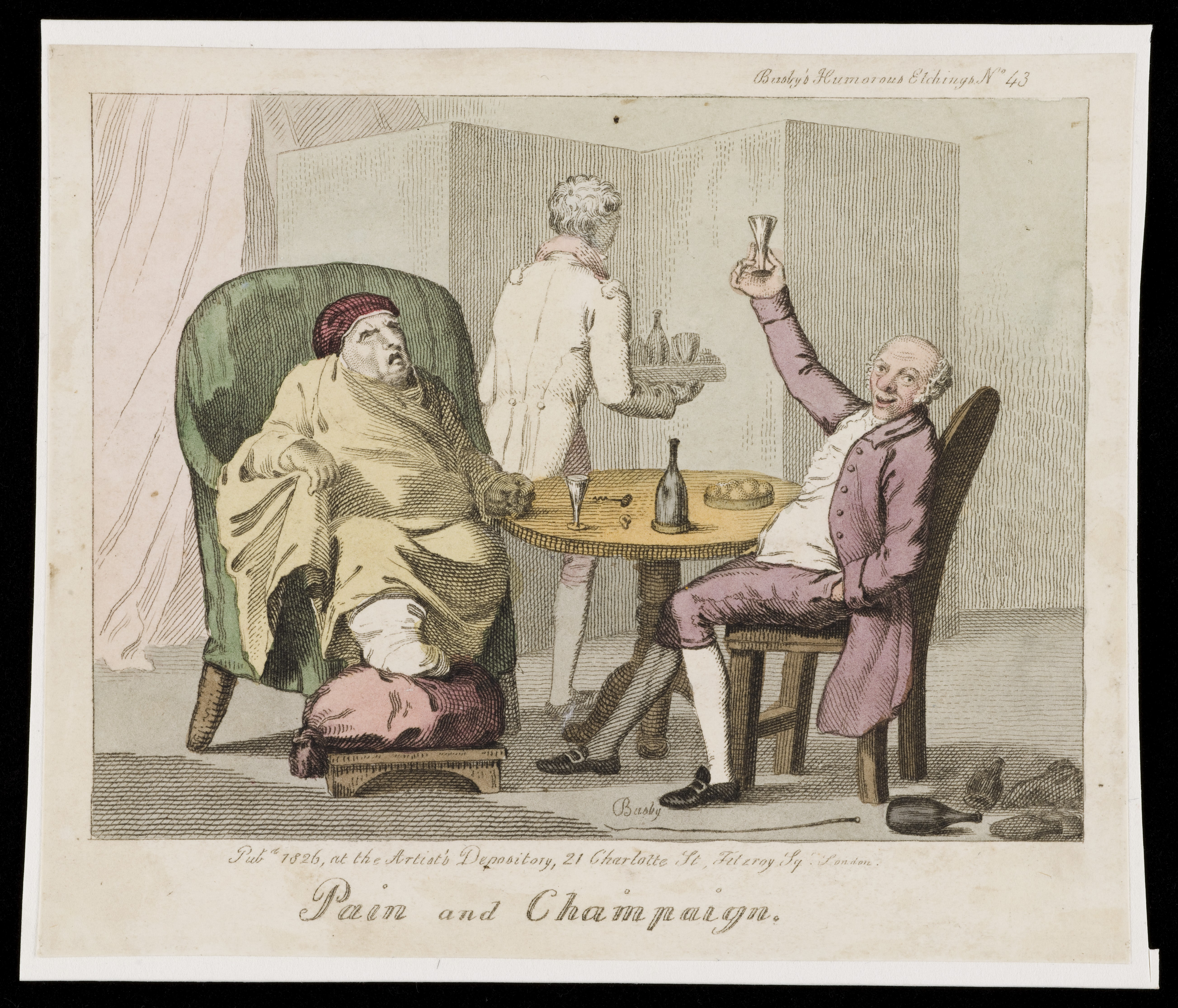 A gouty man at table with a bon viveur drinking champagne (a pun on "pain"). Coloured etching by T.L. Busby, 1826 Iconographic Collections Keywords: Thomas Lord. Busby